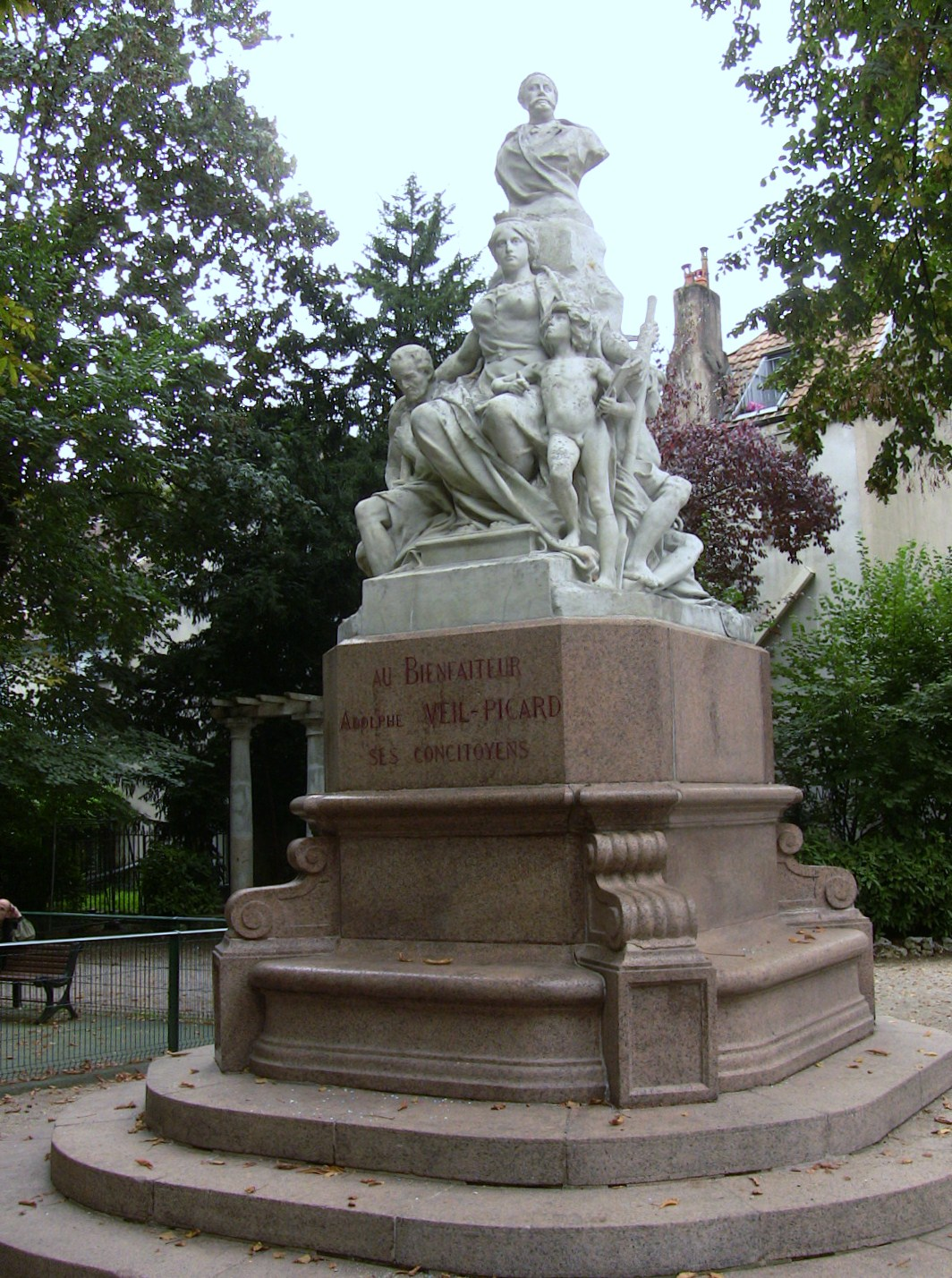 Statue of Adolphe Veil-Picard located in the place Granvelle, in Besançon (Doubs, France)